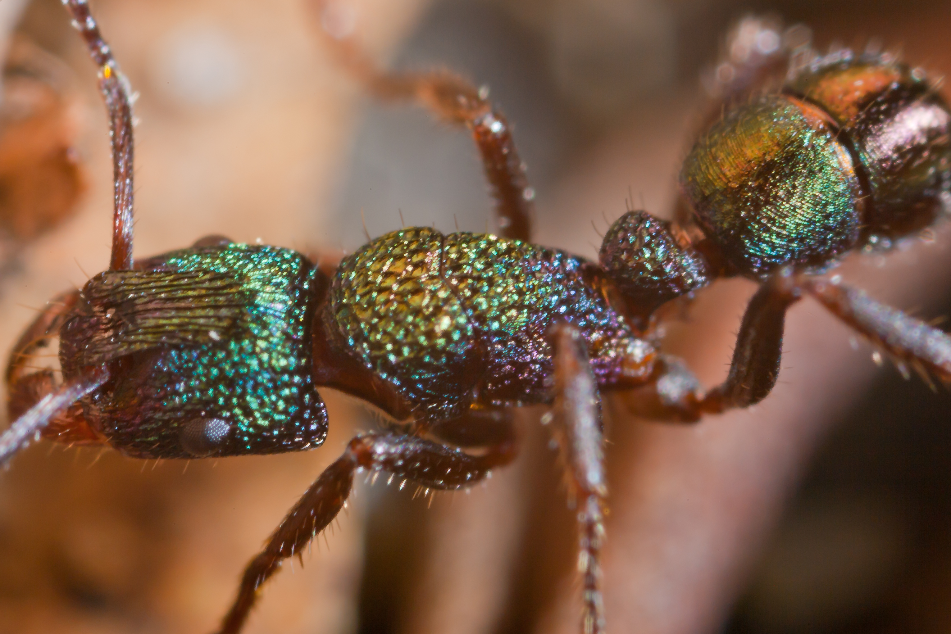 An image of Rhytidoponera metallica walked around. Taken with a Canon 65mm MP-E 1-5x lens at 5x. Slight blur due to slow wireless flash sync at 200/s.